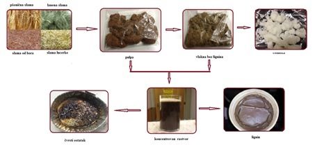 Figure 3. Scheme of obtaining extraction of lignin